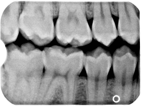 This is part of a series of dental X-rays of my mouth. If you know a little more about teeth than me, and are able to provide a better description of what this image shows, please edit this!